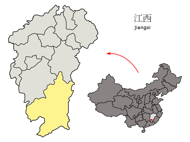 Location of Ganzhou Prefecture (yellow) within Jiangxi Province of China Map drawn in december 2007 using various sources, mainly : Jiangxi Province administrative regions GIS data: 1:1M, County level, 1990 Jiangxi Counties map from